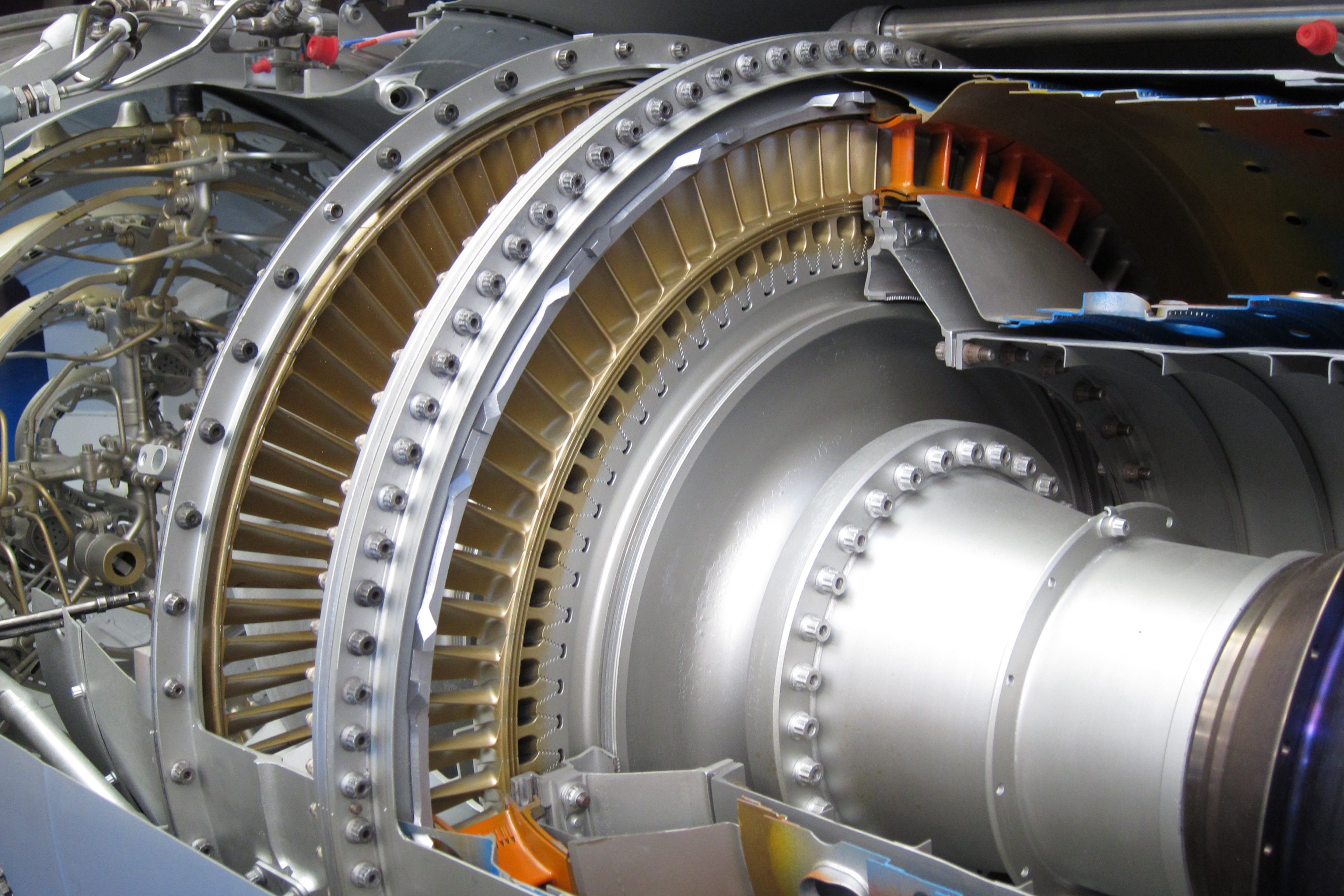 The rear section of a sectioned Rolls-Royce Turboméca Adour turbofan displayed at the Musée de l’Air in Paris, France. Air flow is from right to left. The two-stage turbine can be seen in the center, with blades (painted gold) linked to the disc by fir root trees. In the background, the complex setup of the afterburner can be seen.